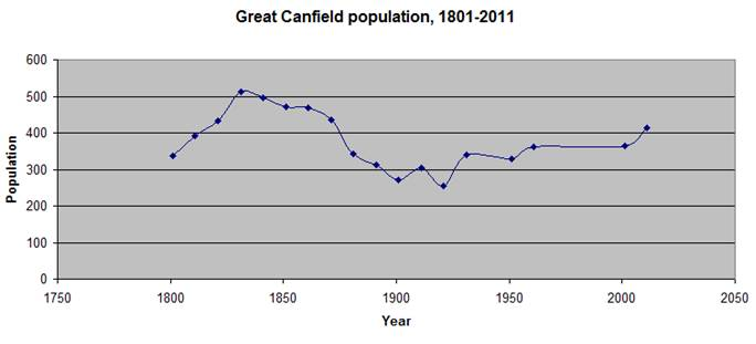 Graph showing population data extracted from census records in reference to the parish of Great Canfield